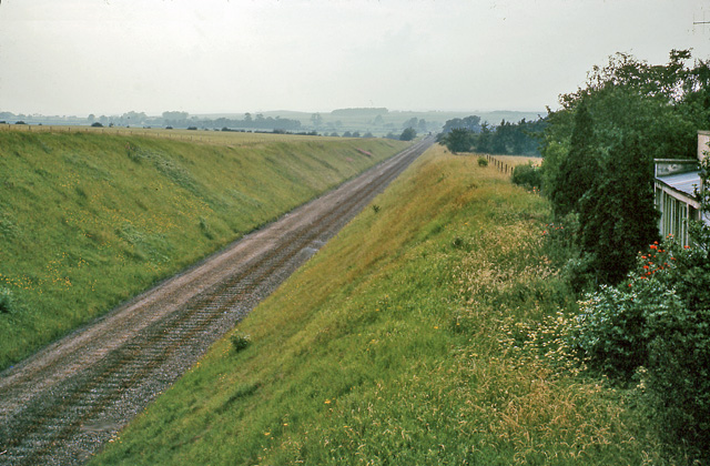 Site of Bingham Road Station. View NW, towards Saxondale Junction and Nottingham; trackbed of former GN&LNW line from Harby & Stathern, Melton Mowbray and Market Harborough. Station closed 2/7/51, line closed to passengers 7/12/53, to goods 10/9/62.